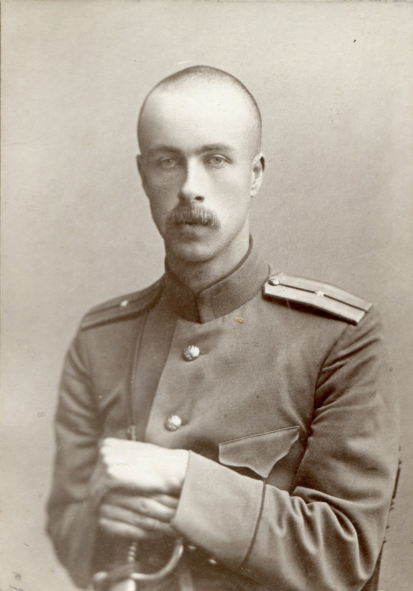 Vladimir E. Yakushkin, deathly wounded in 1916